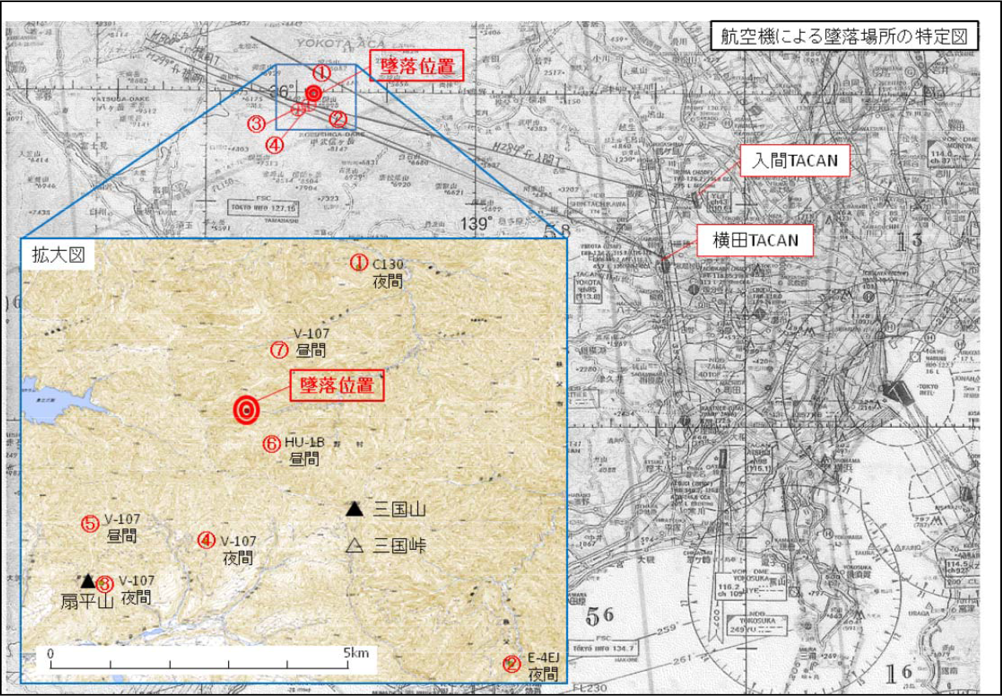 Japan Airlines 123 Explanation of investigation report